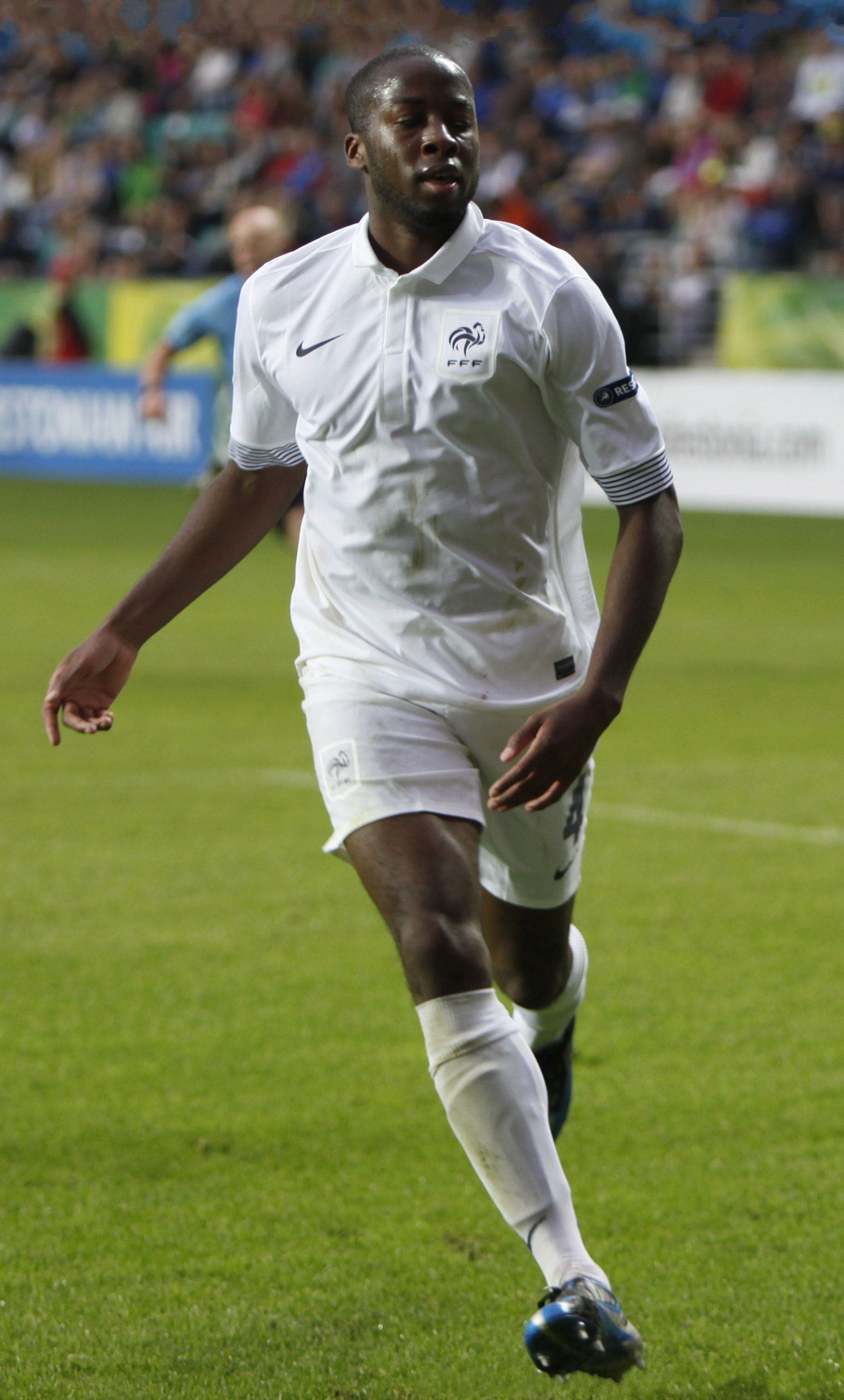 Richard-Quentin Samnick playing for France U-19 during European Championships in 2012.